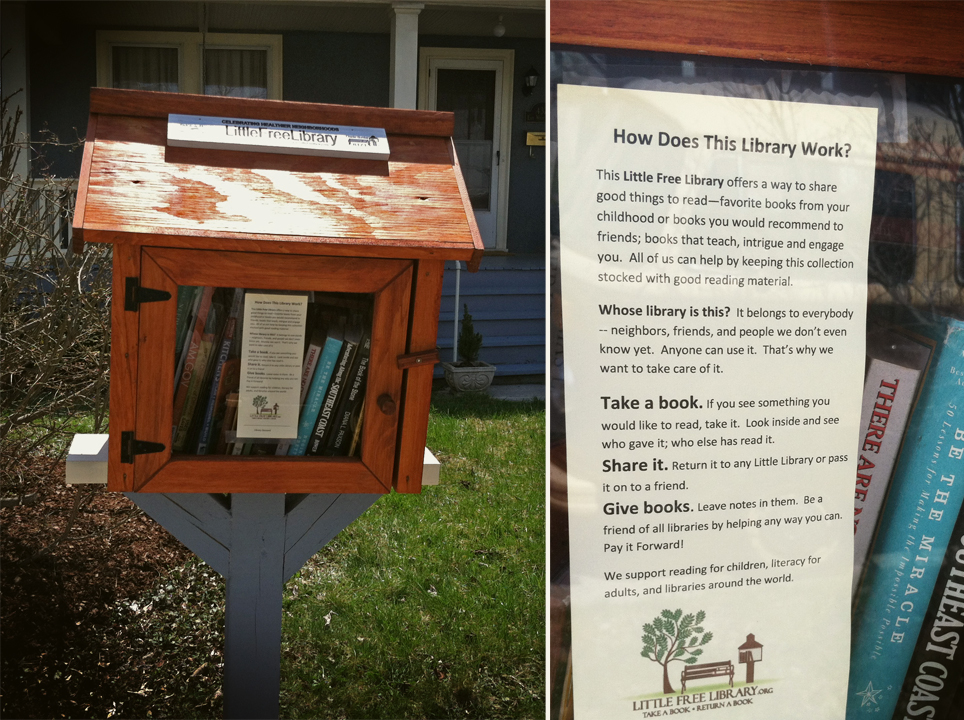 Little Free Library, Harrisonburg VA. Shot by PTC as part of OFAR, 2014.